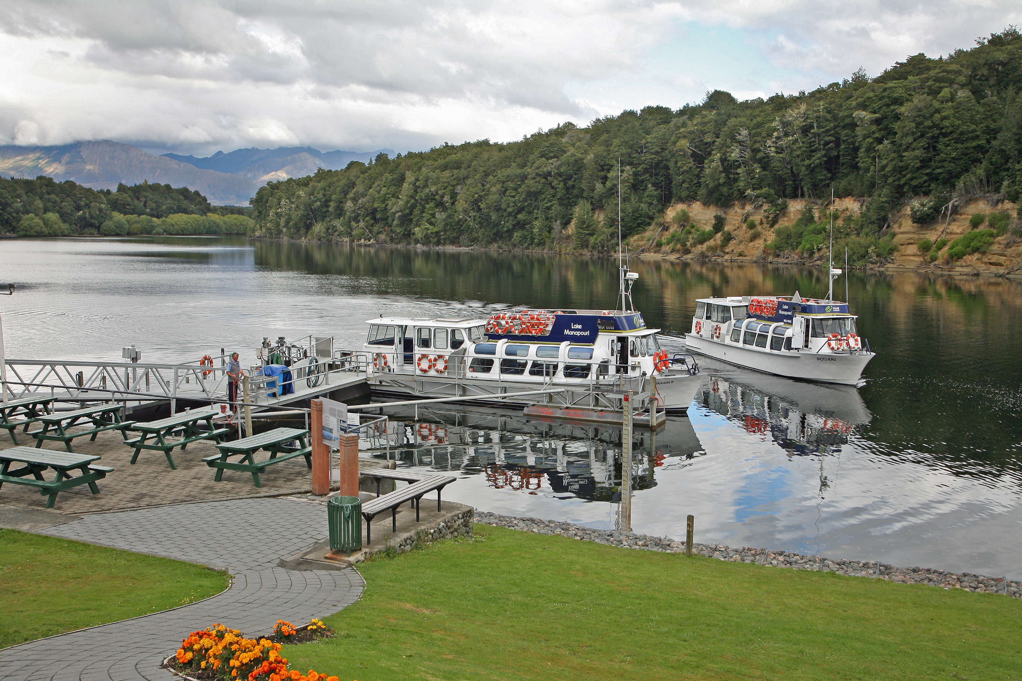 Lake Manapouri, a glacier on the South Island of New Zealand (Southland, Fiordland National Park).